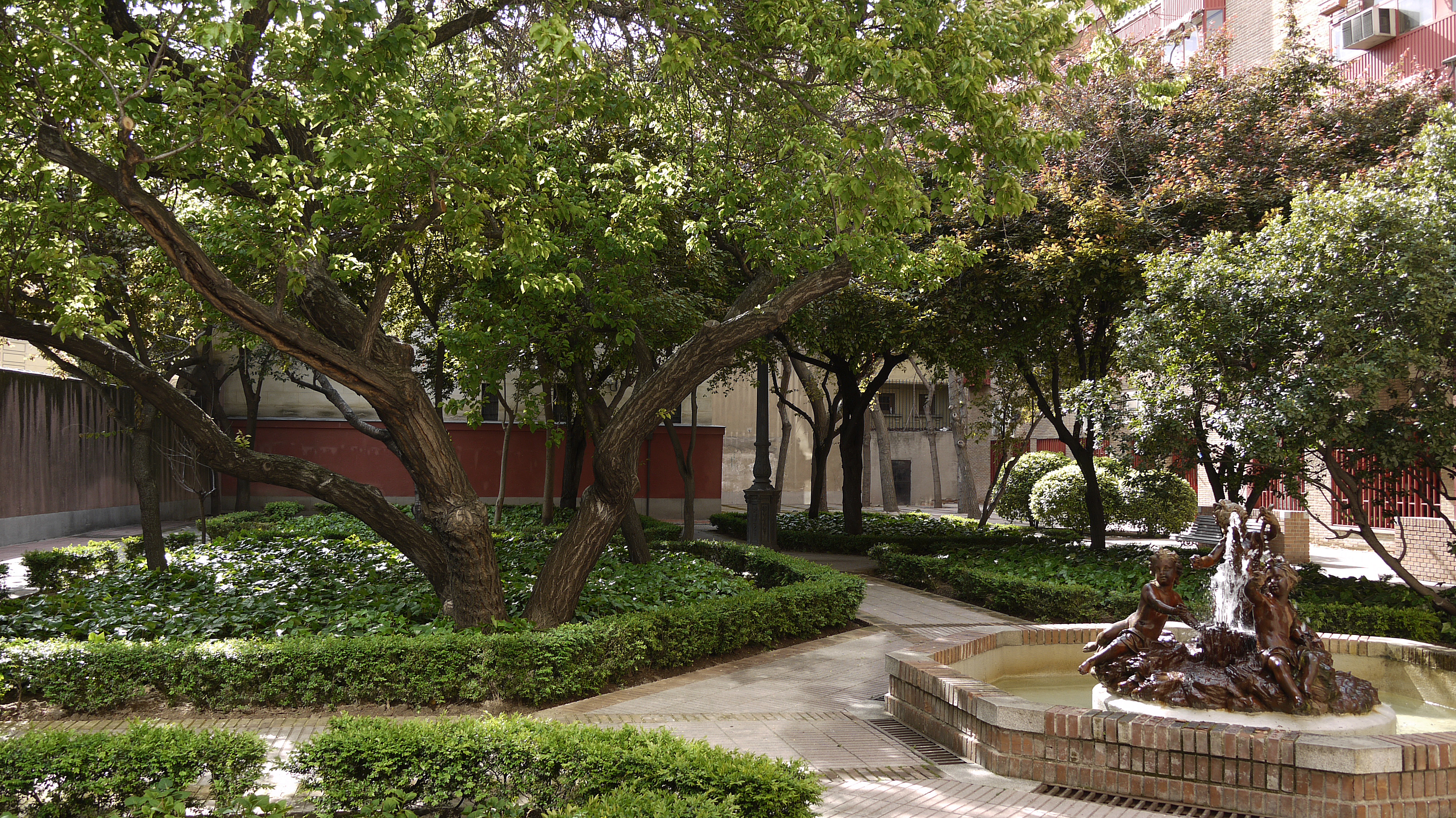 Huerto de las monjas, C/ Sacramento 7, Small convent garden in central Madrid, Spain.